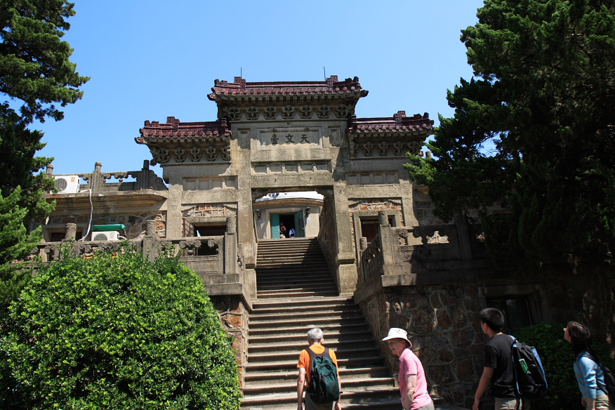 Purple Mountain Observatory, 紫金山天文台